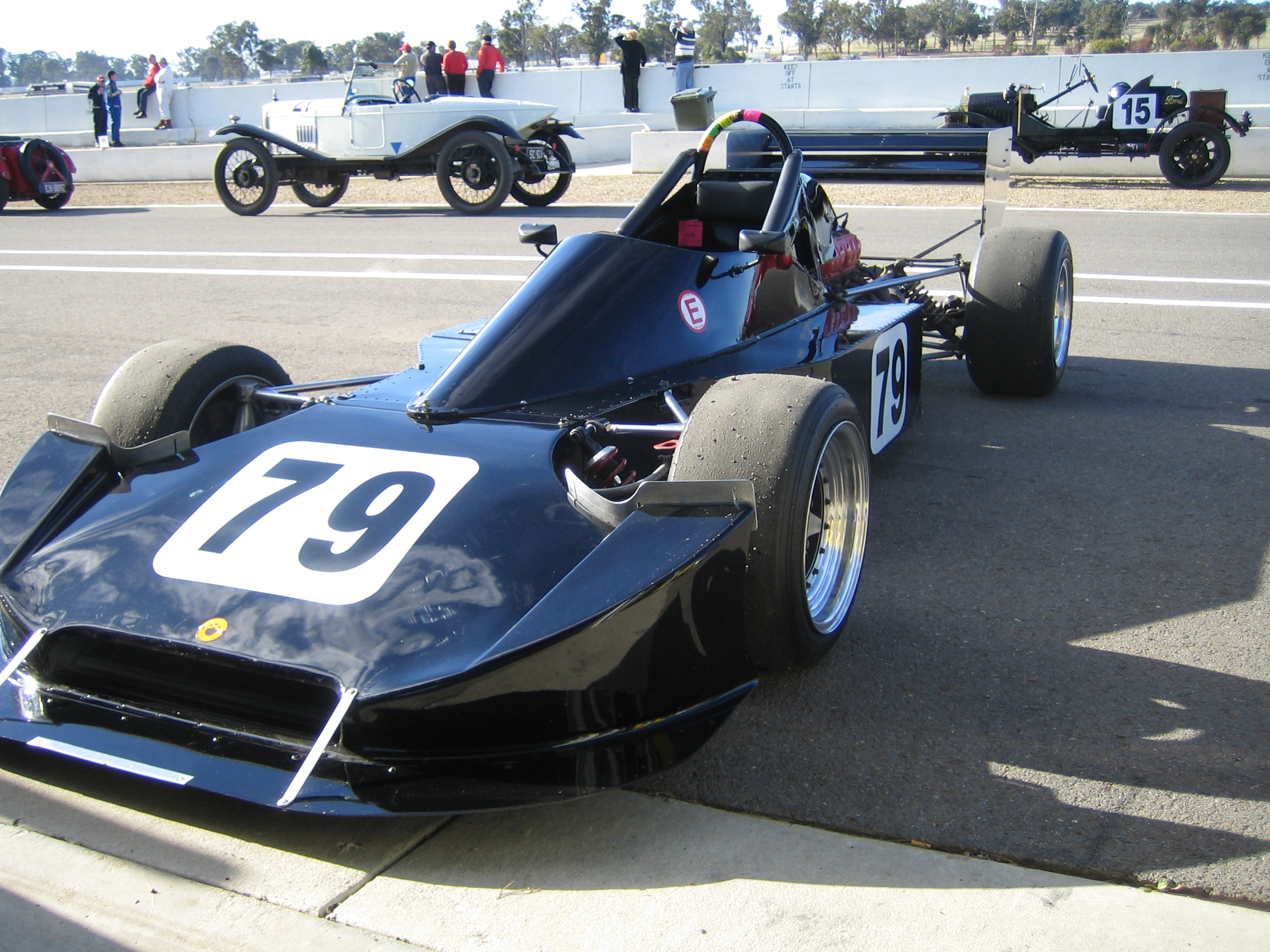 Edward Gavins Mk6 Cheetah